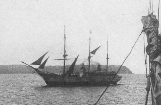 Norwegian sealing bark "Hertha" in Hammerfest 1900 viewed from the "Stella Polare".